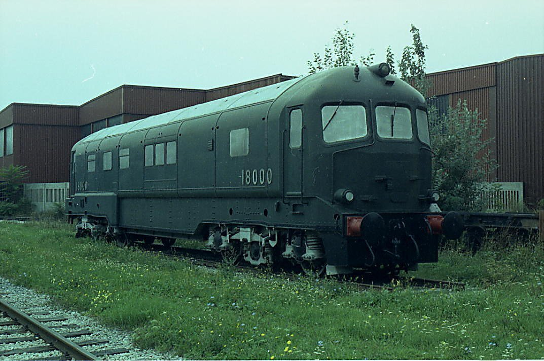 Dave Coxon, personal photo